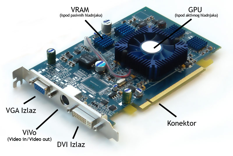 Main parts of video card (in Bosnian)